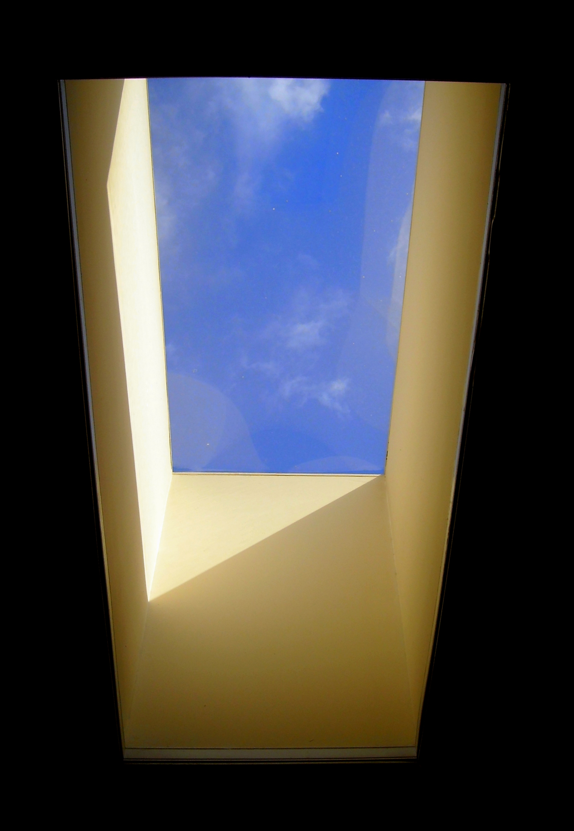 Skylight in a Washington, D.C. home.